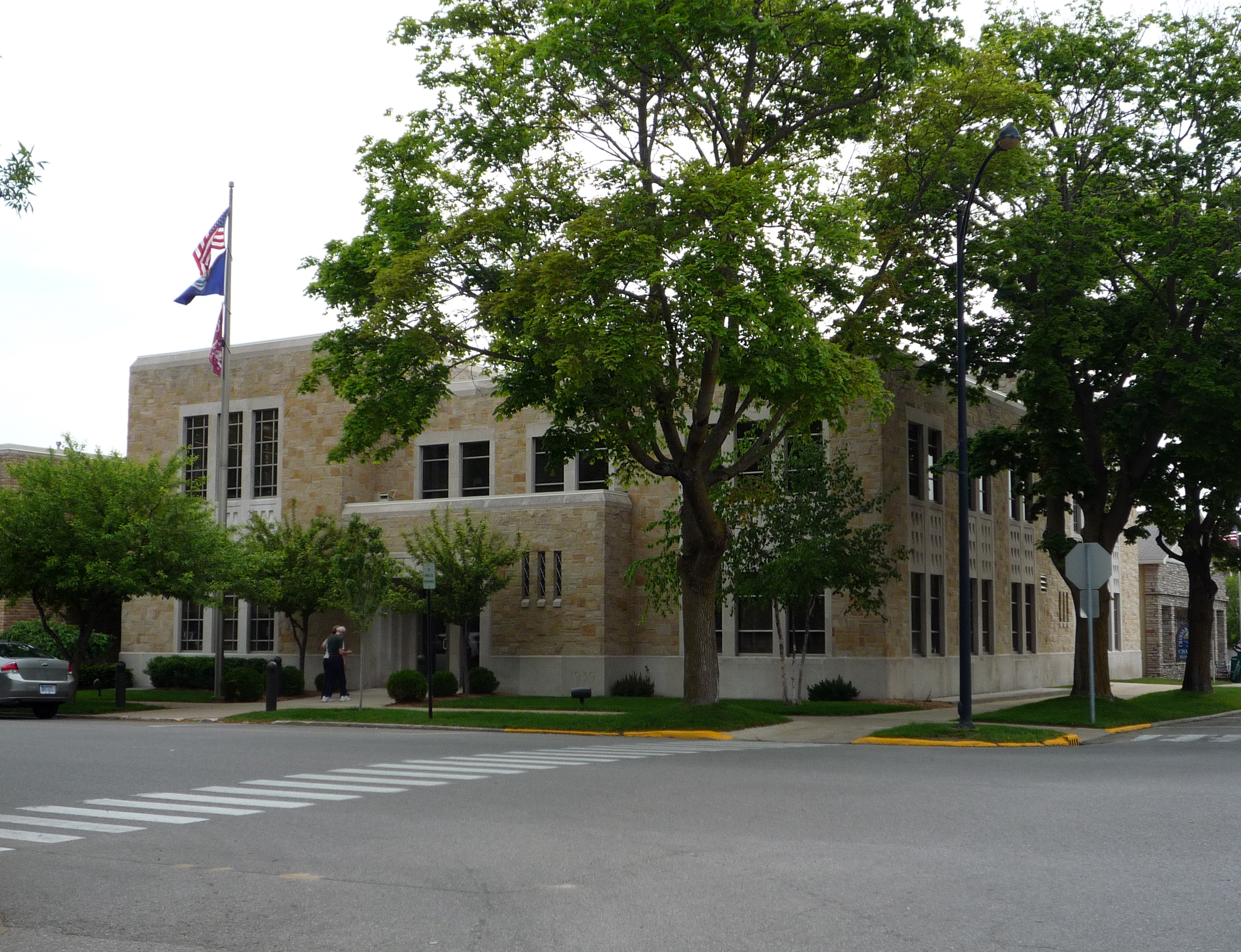 City Hall, Charlevoix, Michigan, USA.